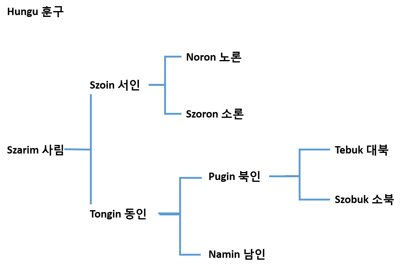 Political fanctions in the Joseon period in Korea, Hungarian and Hangul